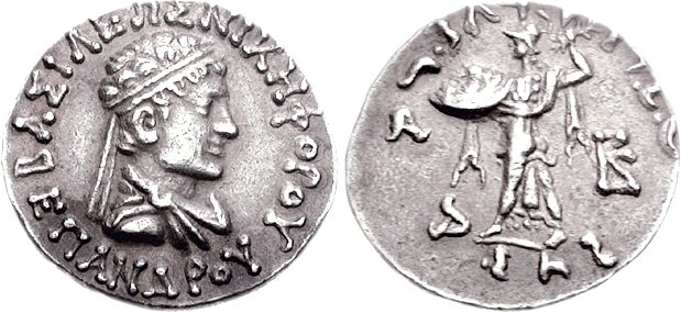 Coin of the Indo-Greek King Epander